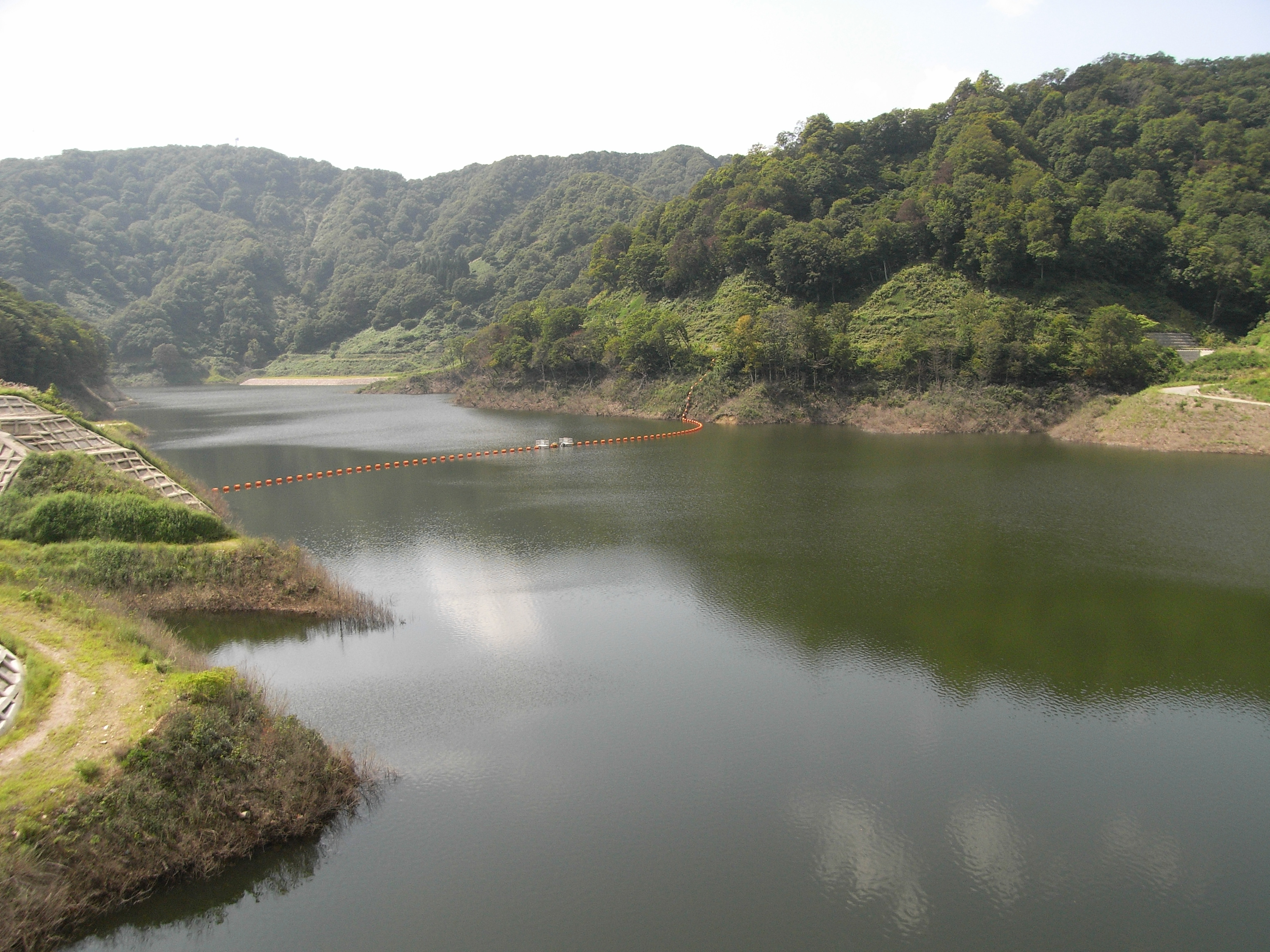 Lake Shiroimori-Oguniko(Yokokawa river/Yamagata Pref./Japan)